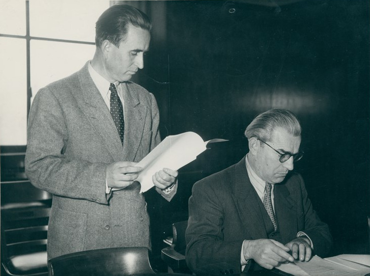 Konstantin Kusitasev and Stoine Stoyanov, Geneva